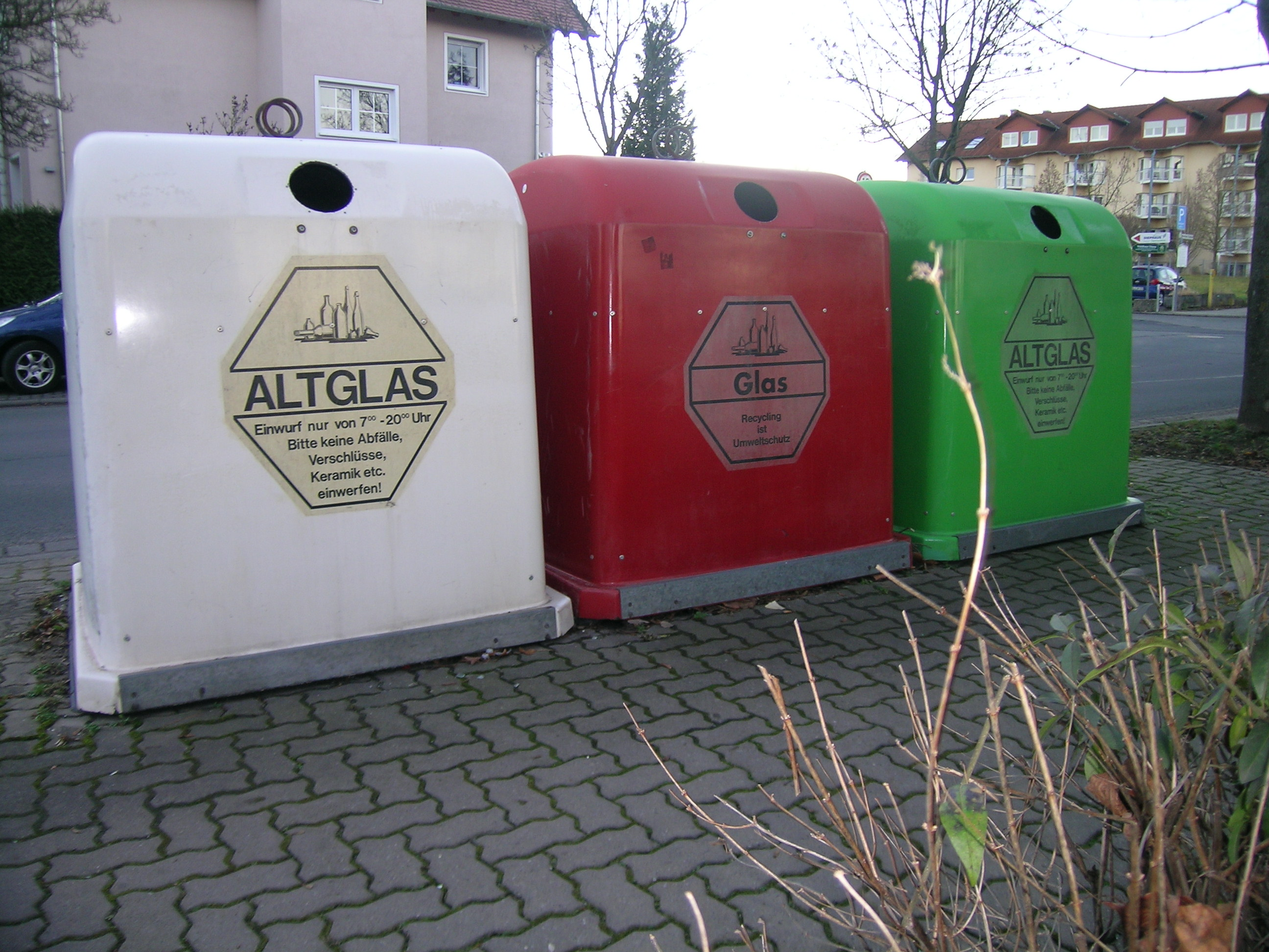 Glass salvage containers in Germany